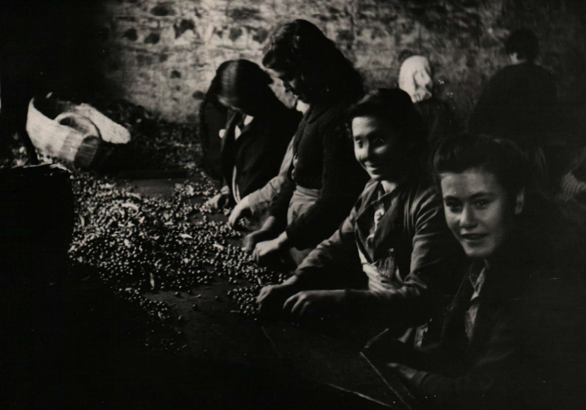 Sorting olives in Makri, Evros.